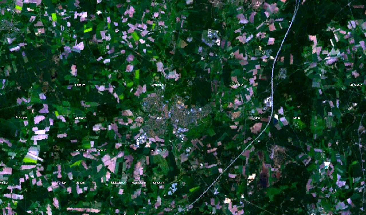 Satellite image of Soltau and districts